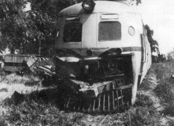 A Birmingham Gardner CMF 2790 coach of Ferrocarril Midland, with its front crashed, abandoned in La Plata workshop.